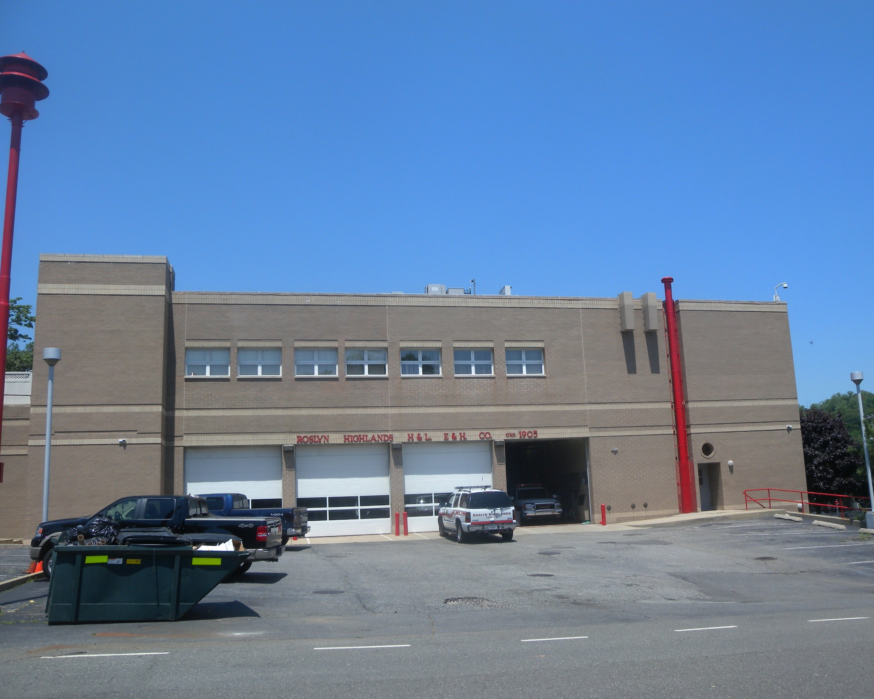 Looking north from Garden Street at firehouse on a sunny midday.